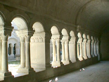 Cloister in Abbey of Senanque, photographed by Jeremy J. Shapiro in 2004.